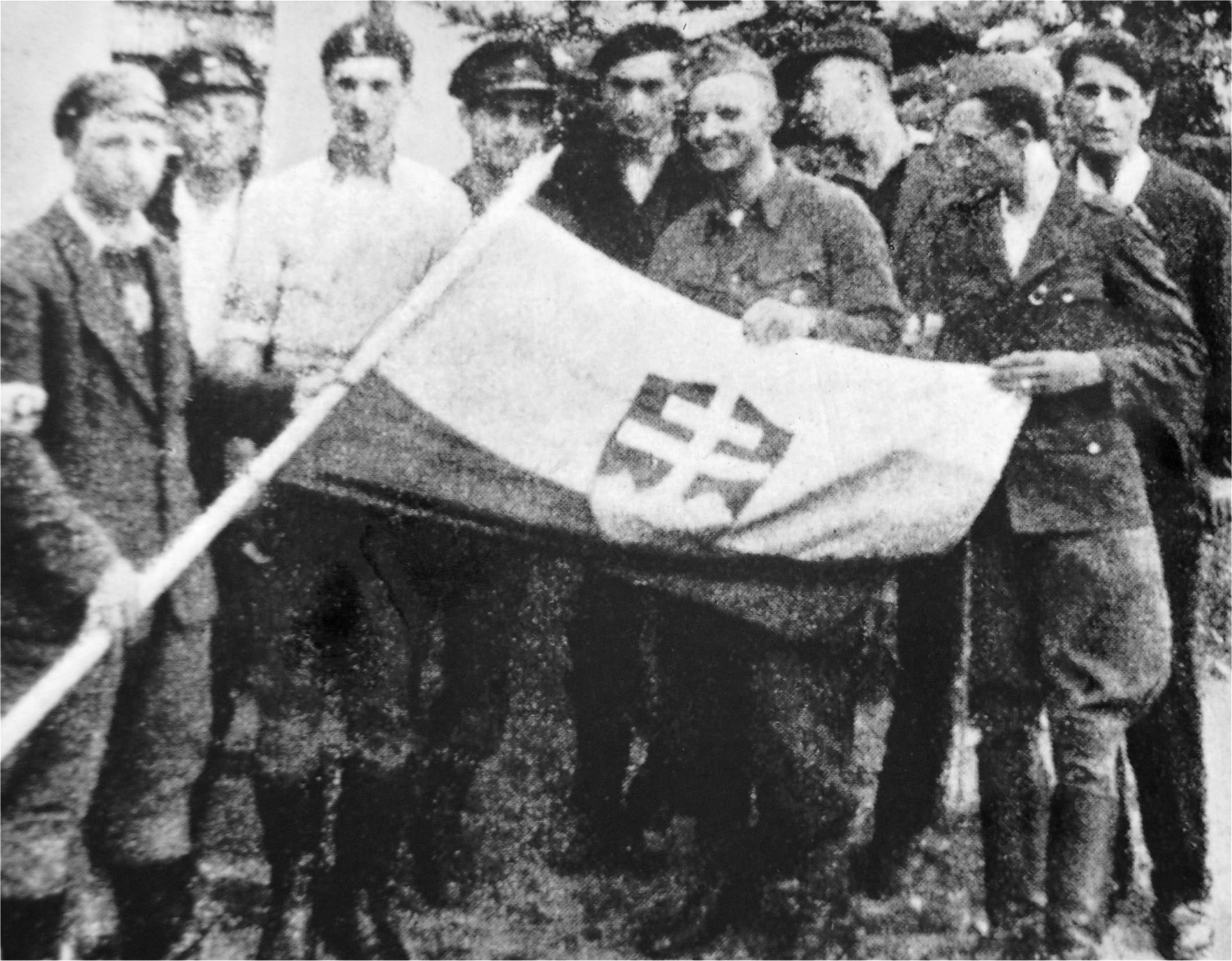 535 Slowak Platoon from 1st company of "Tur" Battalion from Zgrupowania "Kryska" and fighting in Czerniaków district during Warsaw Uprising.